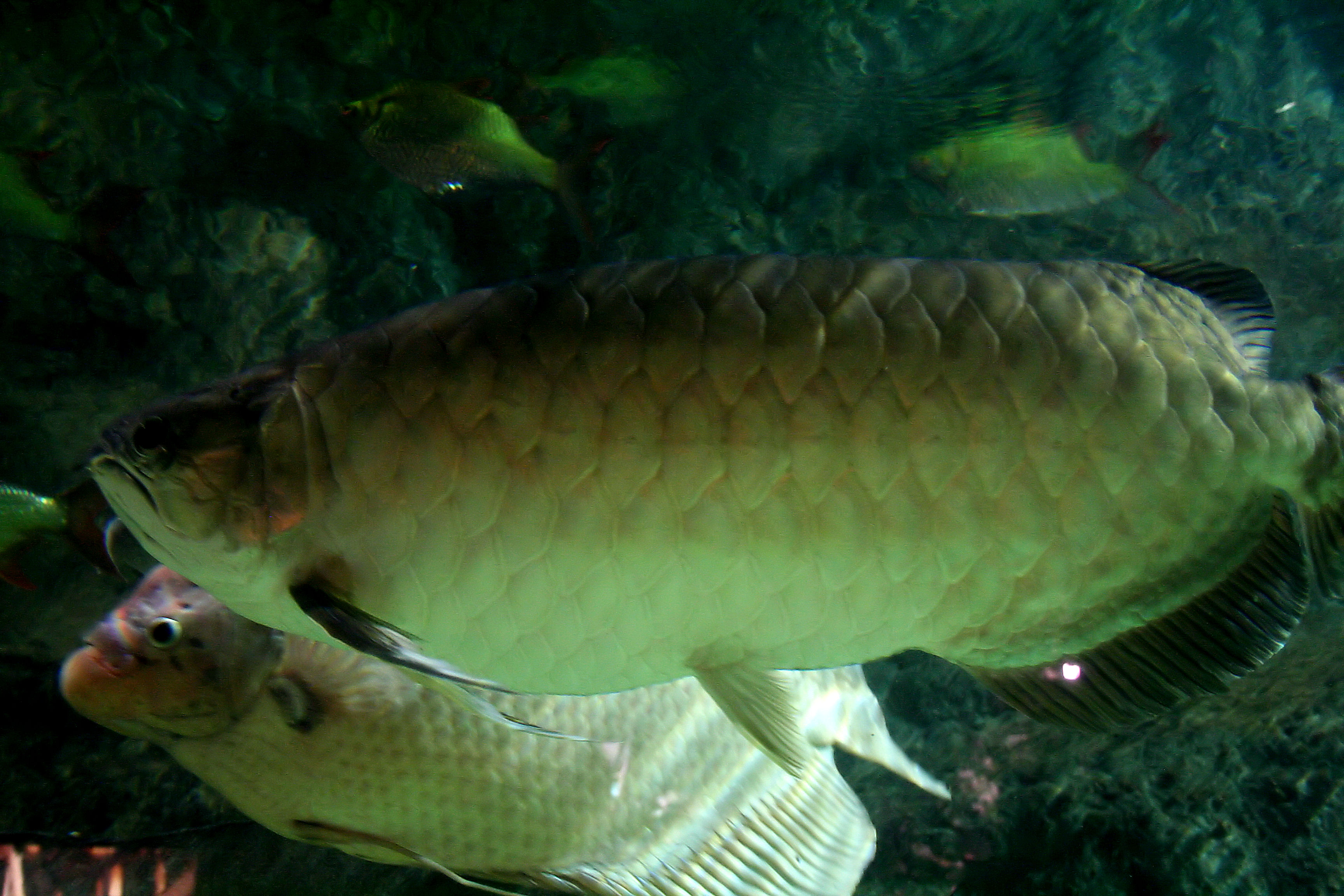 London Aquarium (Green Arowana; Scleropages formosus)